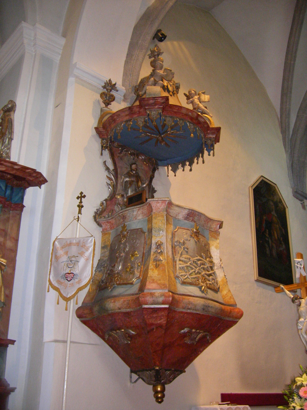 Sučany - catholic church